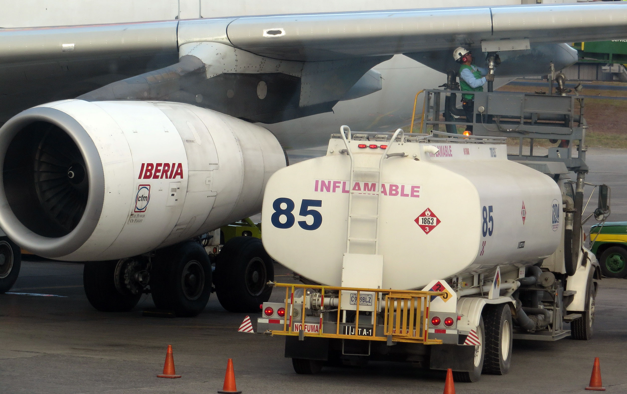 Iberia A340-300 EC-IIH refueling at La Aurora Airport (Guatemala City)